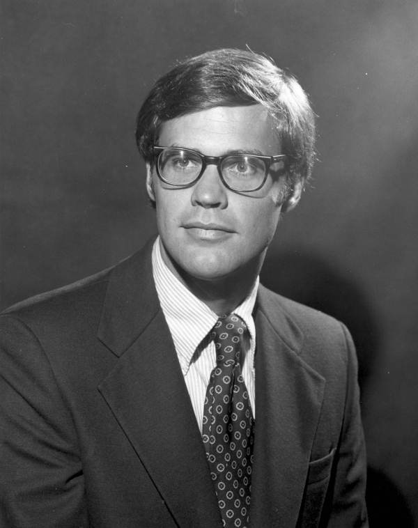 Ander Crenshaw